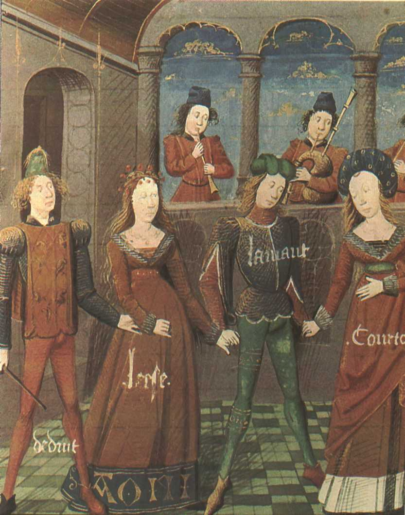 Miniature from a manuscript of the Roman de la Rose (Oxford, Bodleian Library, MS Douce 364), folio 83, Mirth and Gladness lead a dance.